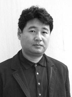 Korean Poet Jang Seok Nam